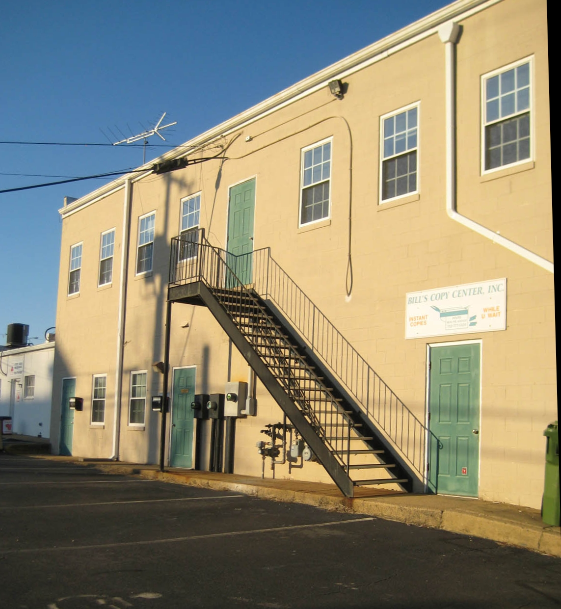 Created by Marielle Kronberg, uploaded on her behalf. 15B Catoctin Circle, Leesburg VA